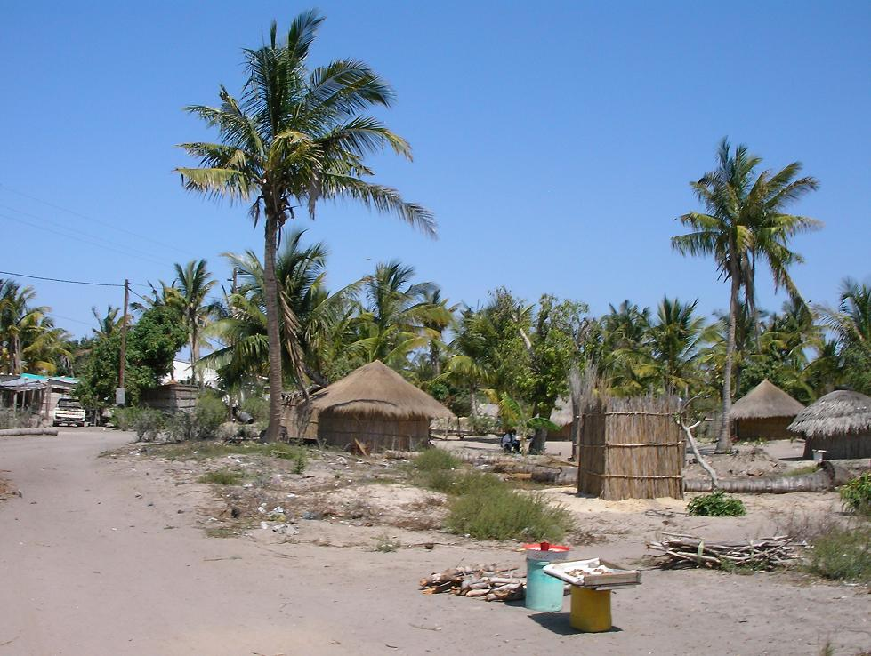 Typical homes and roads in neighborhoods of Vilankulos / Vilankulo, Mozambique. Note the firewood selling point in the foreground.